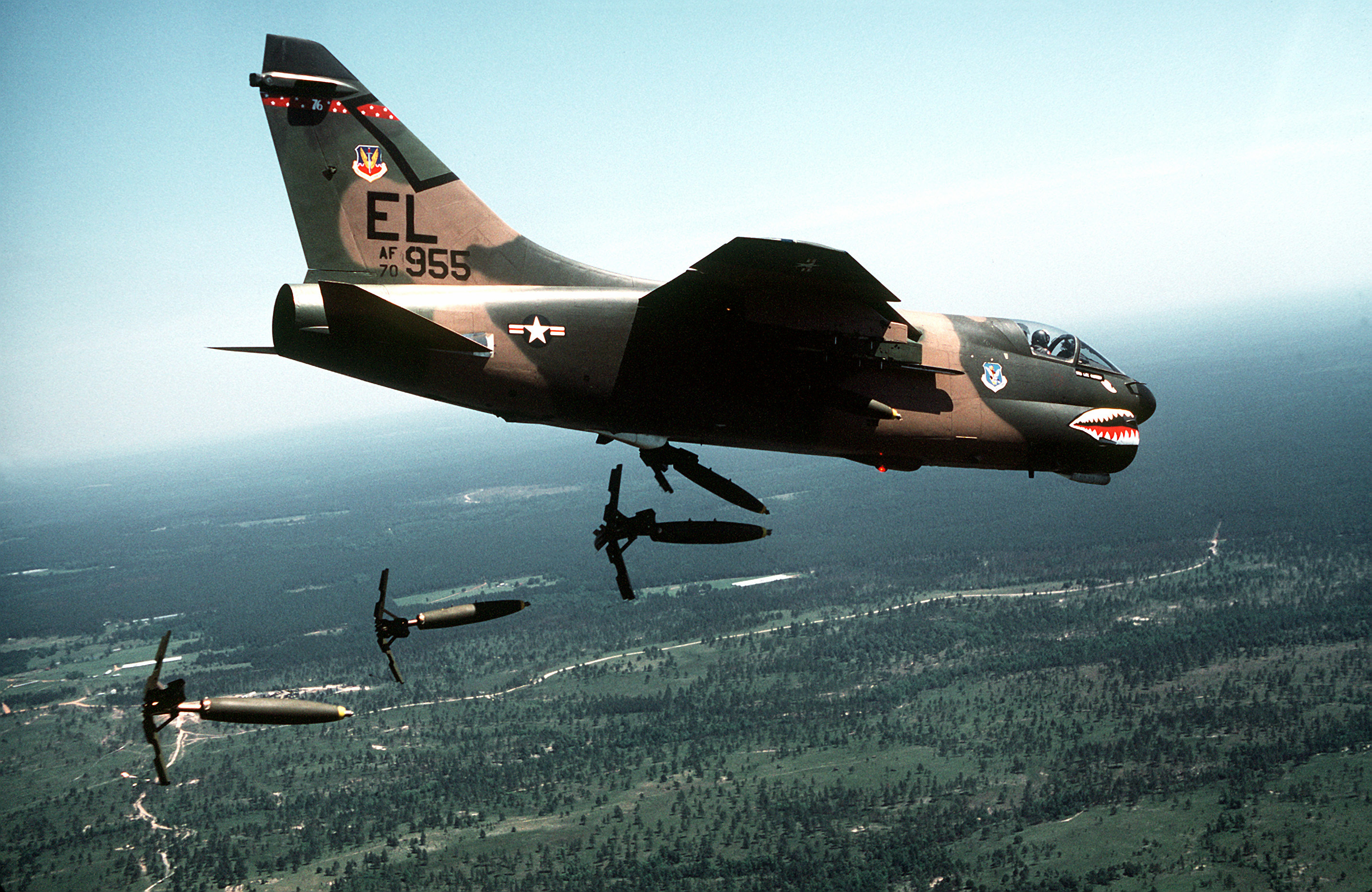 Low angle right side view of an A-7 Corsair II aircraft of the 76th Tactical Fighter Squadron, 23rd Tactical Fighter Wing, airdropping Mark 82 hi-drag bombs over the Tyndall Eglin Air Force Base range. Location: TYNDALL AIR FORCE BASE, FLORIDA (FL) UNITED STATES OF AMERICA (USA)